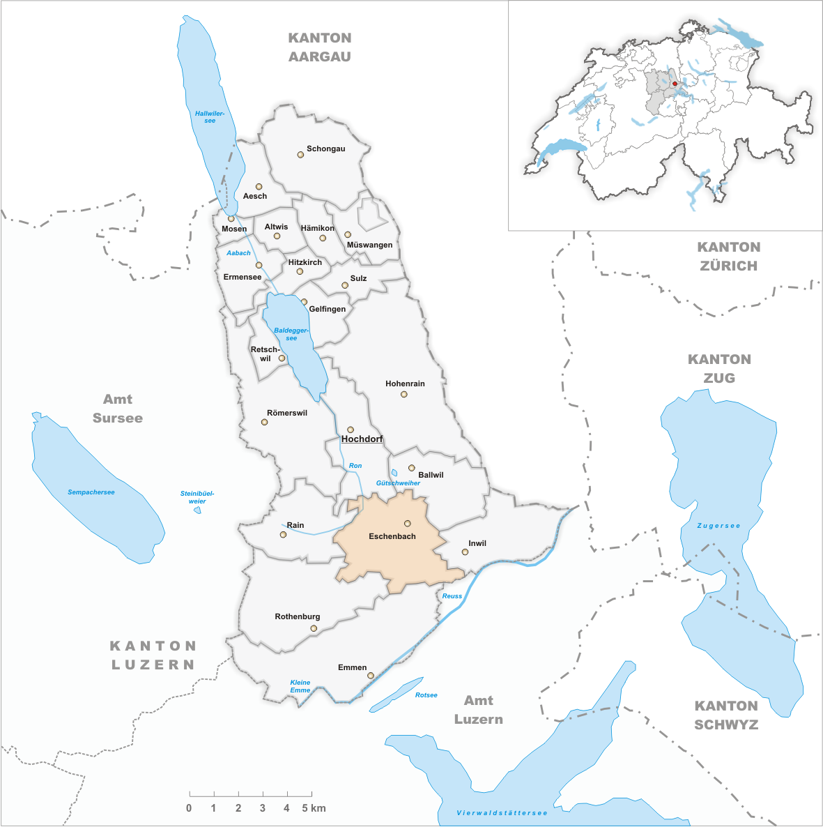 Municipality Eschenbach